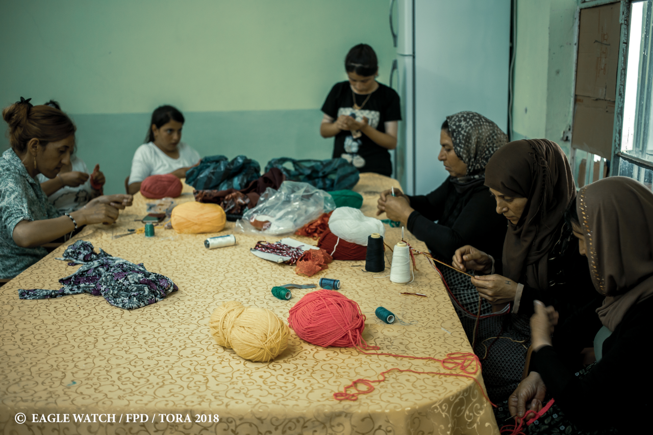 Hand sewing course for Yazidi women liberated from the ISIS captivity.